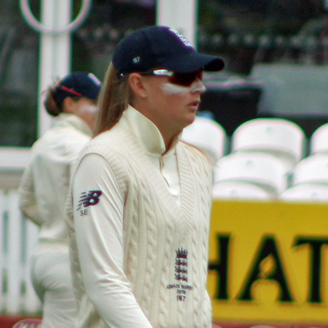 Sophie Ecclestone in the field during the 2019 Ashes Test at the County Ground, Taunton